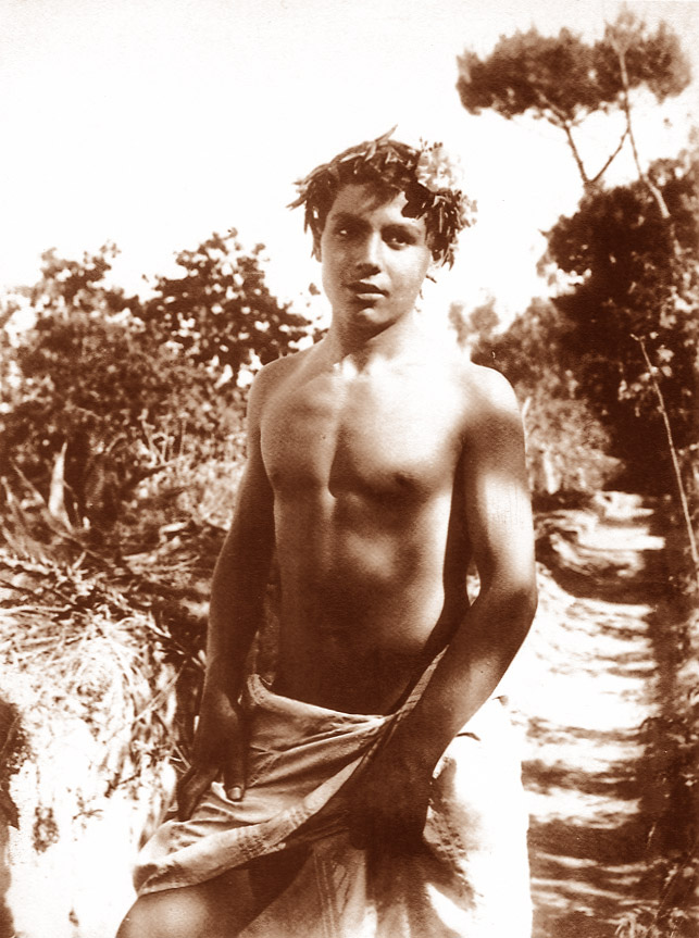 Wilhelm von Gloeden (1856-1931). Model "Pietro" disguised as Bacchus, in Gloeden's and Pluschow's garden at Posillipo (Naples). Catalogue number: 292.